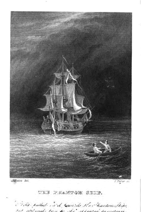 Frontispiece to the novel The Phantom Ship by Frederick Marryat. Published by Richard Bentley, London. 1847 edition.